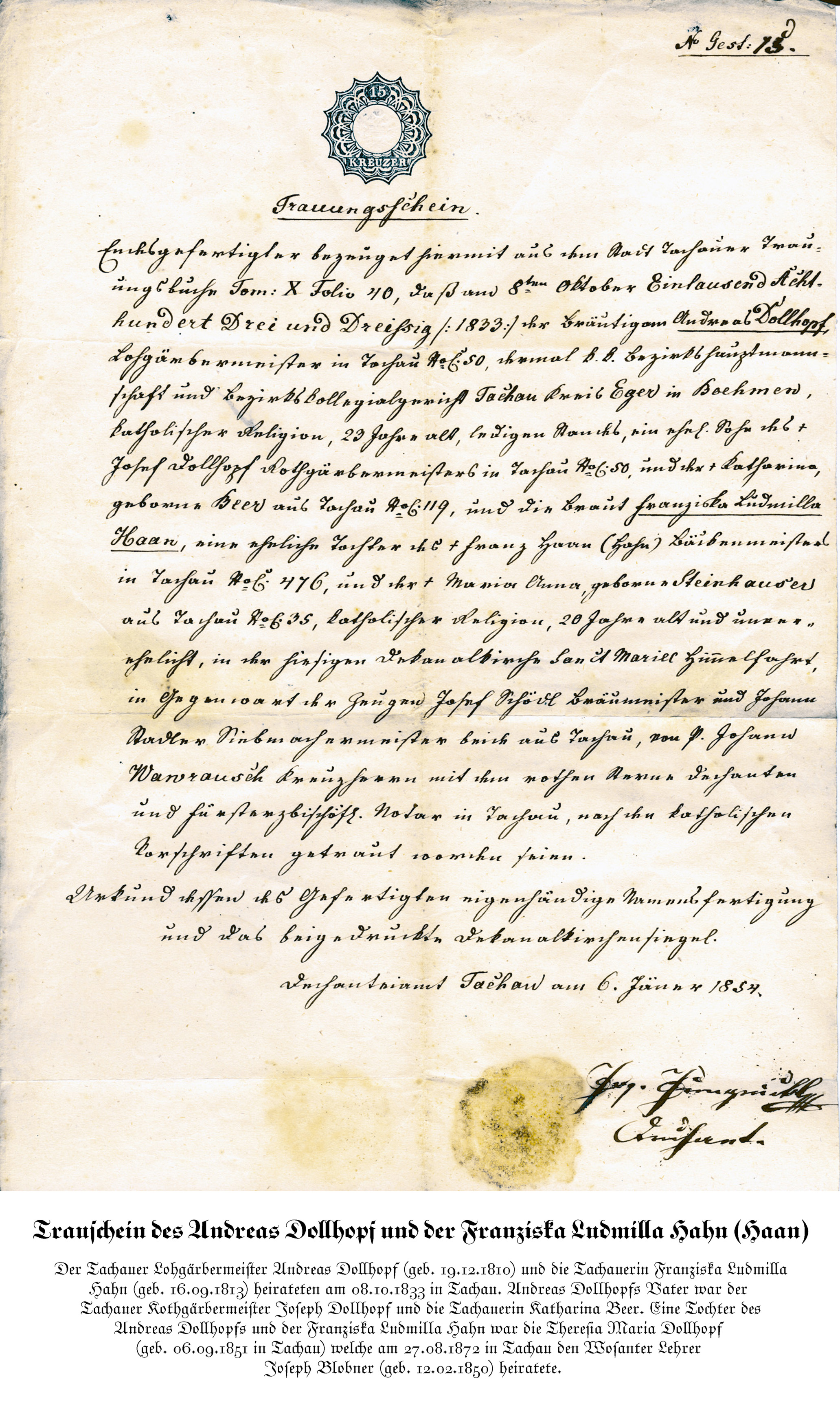 Vital record/Marriage license document) from Bohemia.